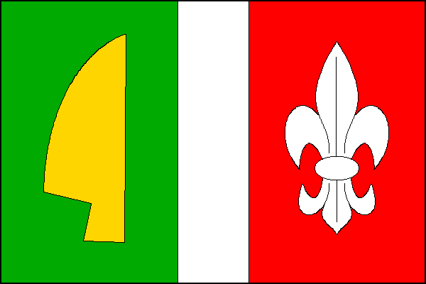 Municipal flag of Kurovice village, Kroměříž District, Czech Republic.